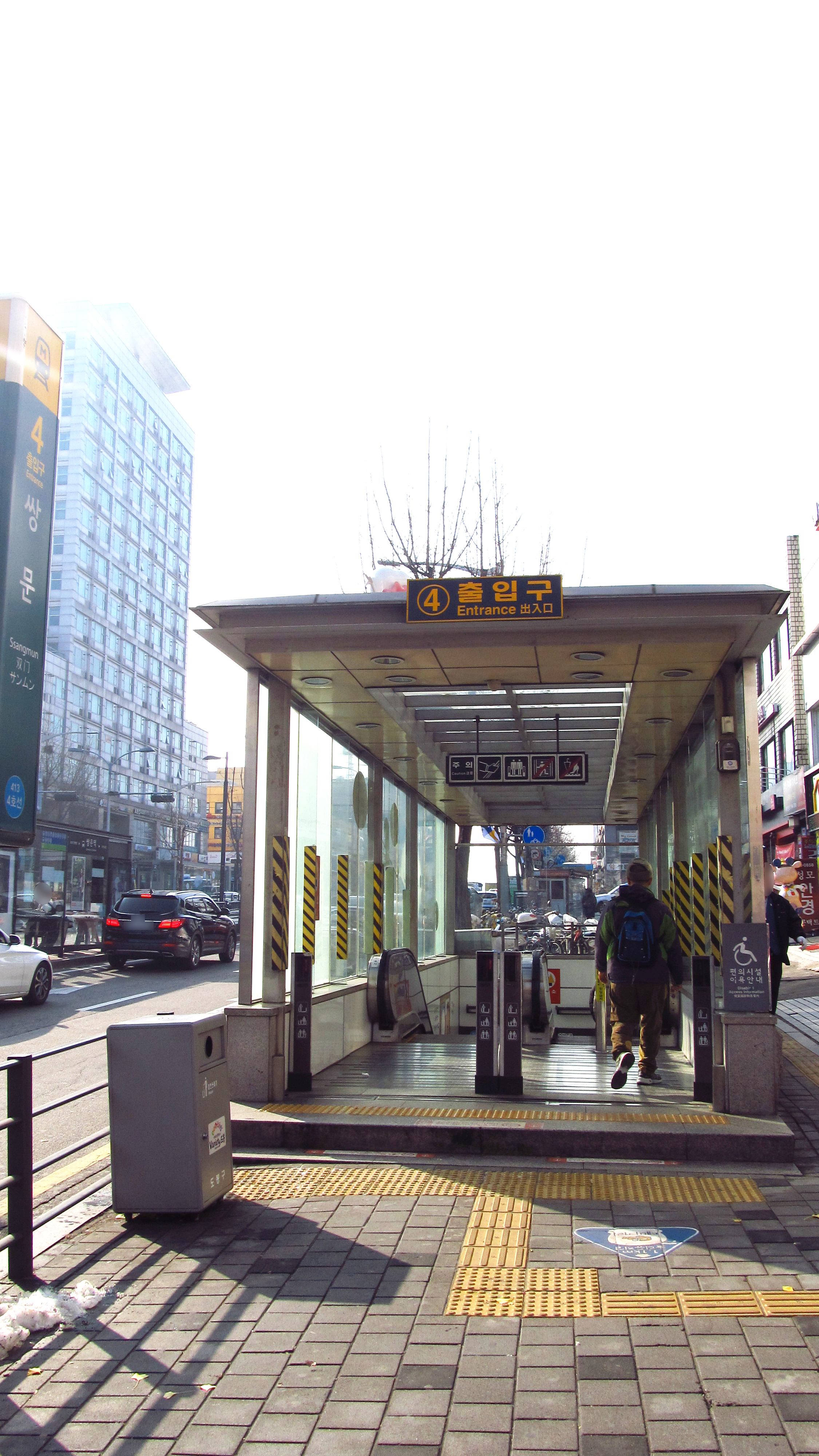 The no.1 entrance to Ssangmun Station on the Seoul Metro Line 4 in Dobong-gu, Seoul, Republic of Korea(South Korea)